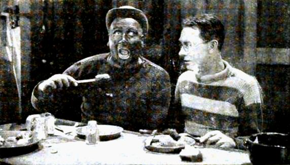 Still from the American comedy film Reported Missing (1922) with Tom Wilson (in blackface) and Owen Moore, on page 54 of the July 1922 Photoplay. The use of blackface actors in American films did not end until the 1930s when public sensibilities regarding race began to change and blackface became increasingly associated with racism and bigotry.